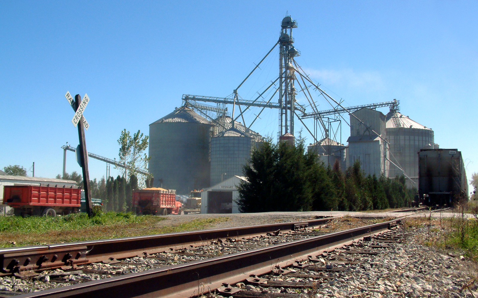 Trucks line up to deposit grain at the elevators in the town of Stewart, Indiana.